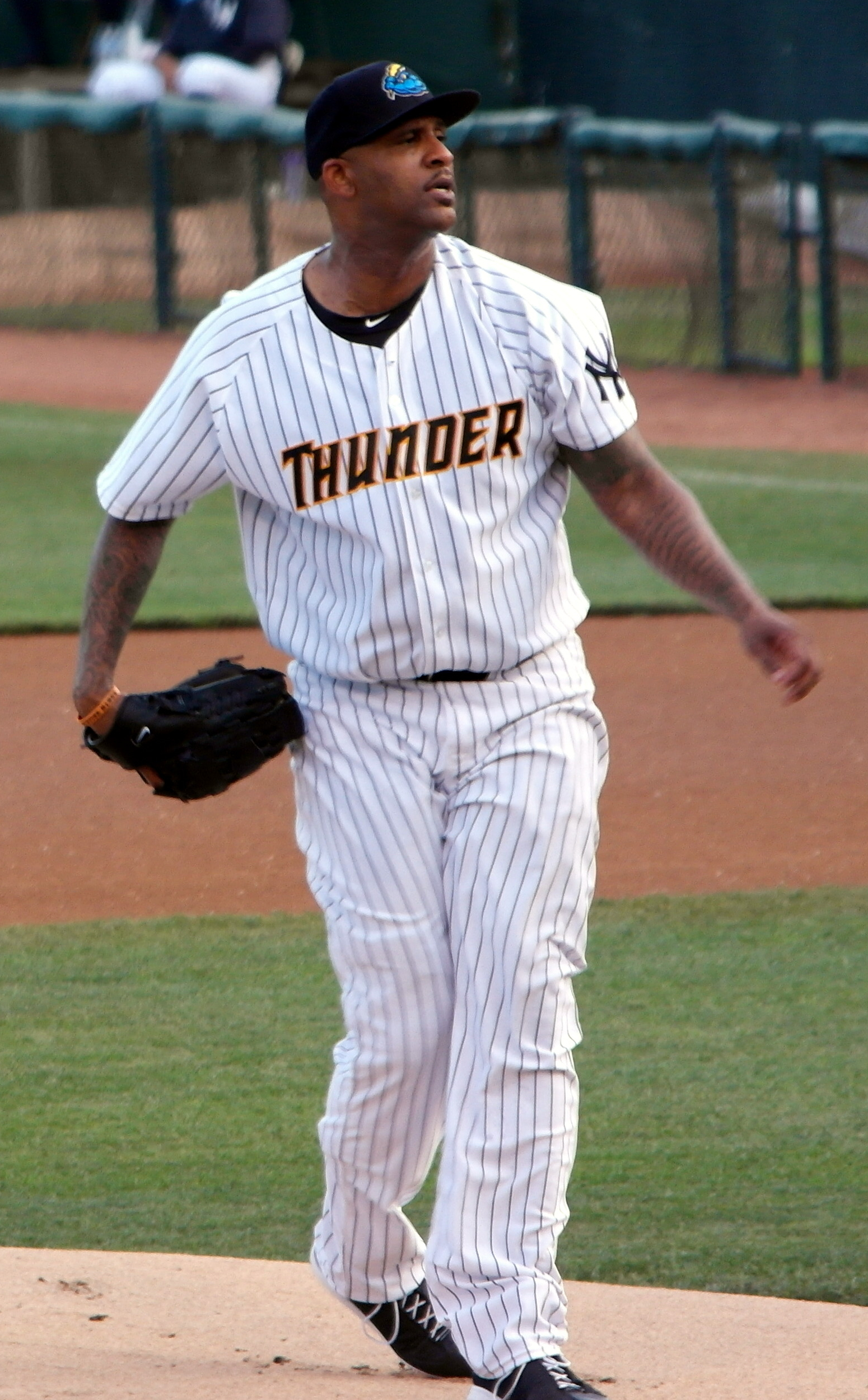 CC Sabathia